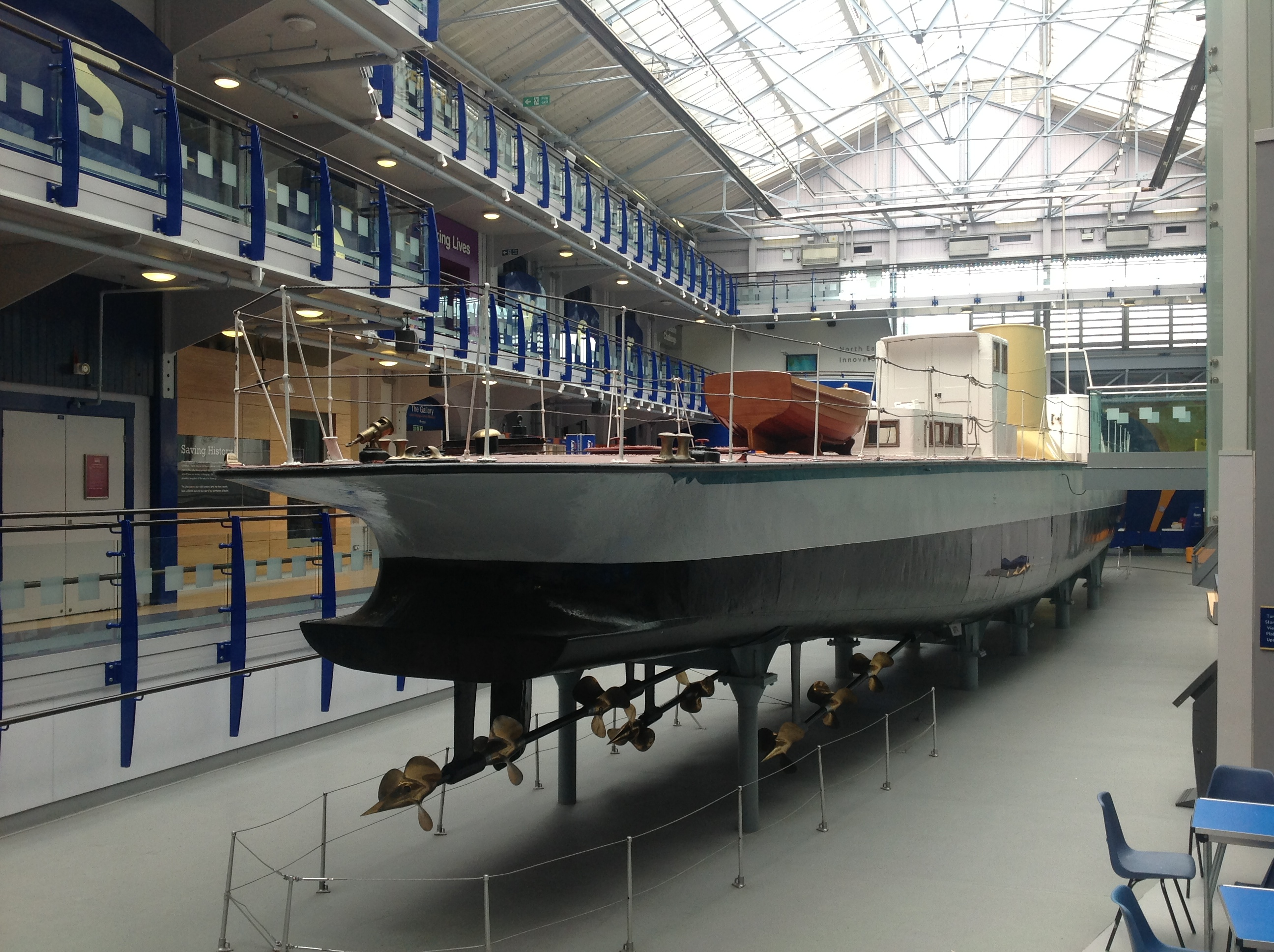 Turbinia stern view on display in Discovery Museum Newcastle on Tyne April 2013